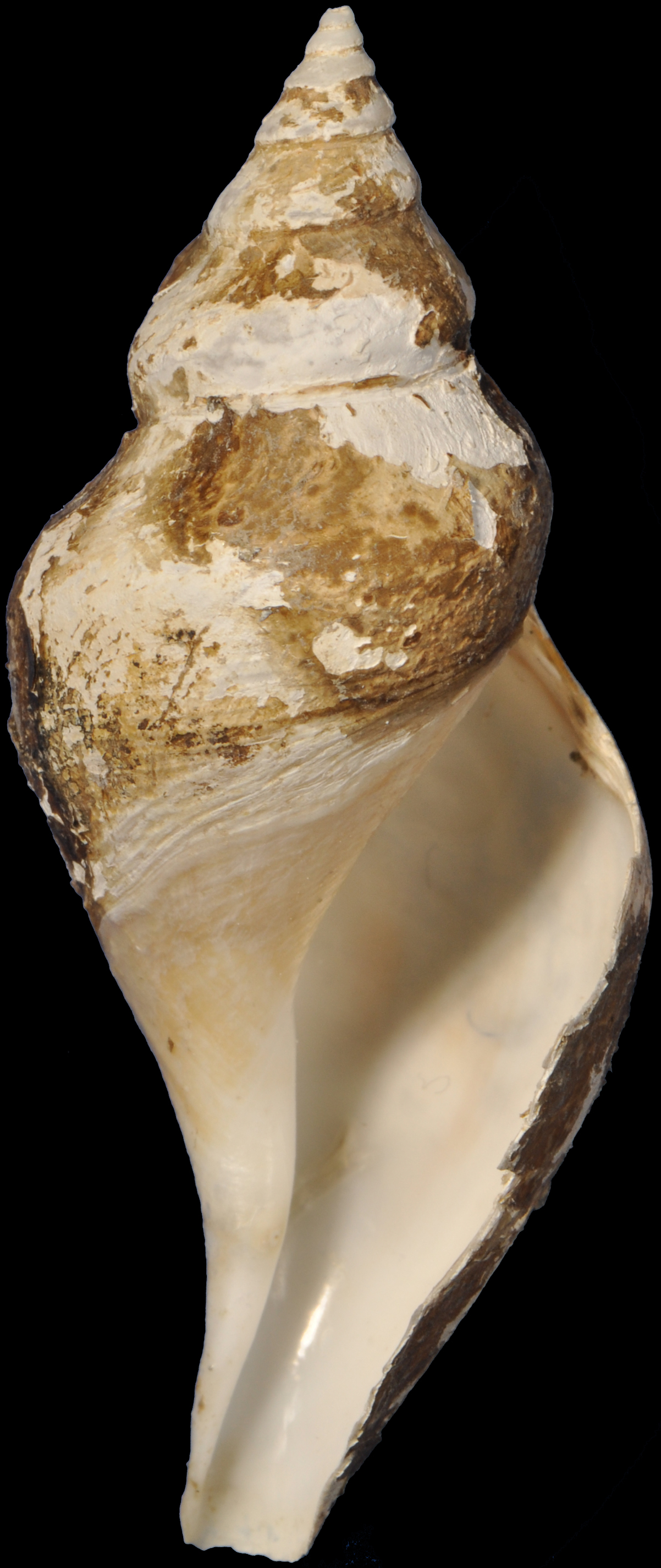 PRESERVED_SPECIMEN; Gymnobela edgariana (Dall, 1889); Type status: N/A; Identified by: N/A; Individual count: N/A; Event date: 2014-08-02T00:00:00Z